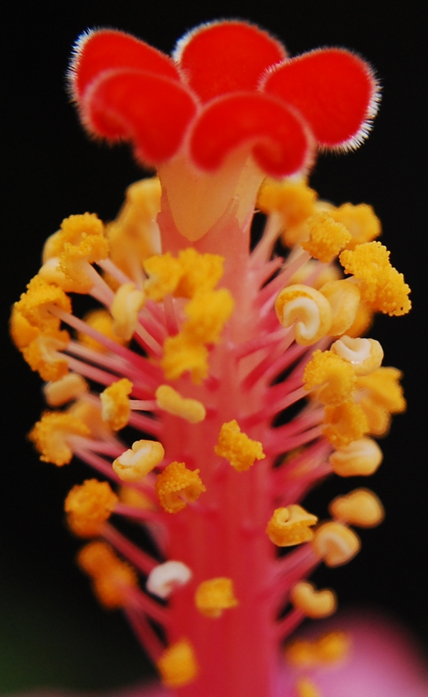 Hibiscus_stamen & pistil